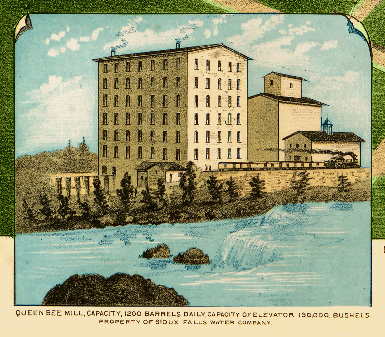 A drawing of the Queen Bee Mill in 1881. Caption reads: "Queen Bee Mill, Capacity 1200 Barrels Daily, Capacity of Elevator 130,000 Bushels, Property of Sioux Falls Water Company